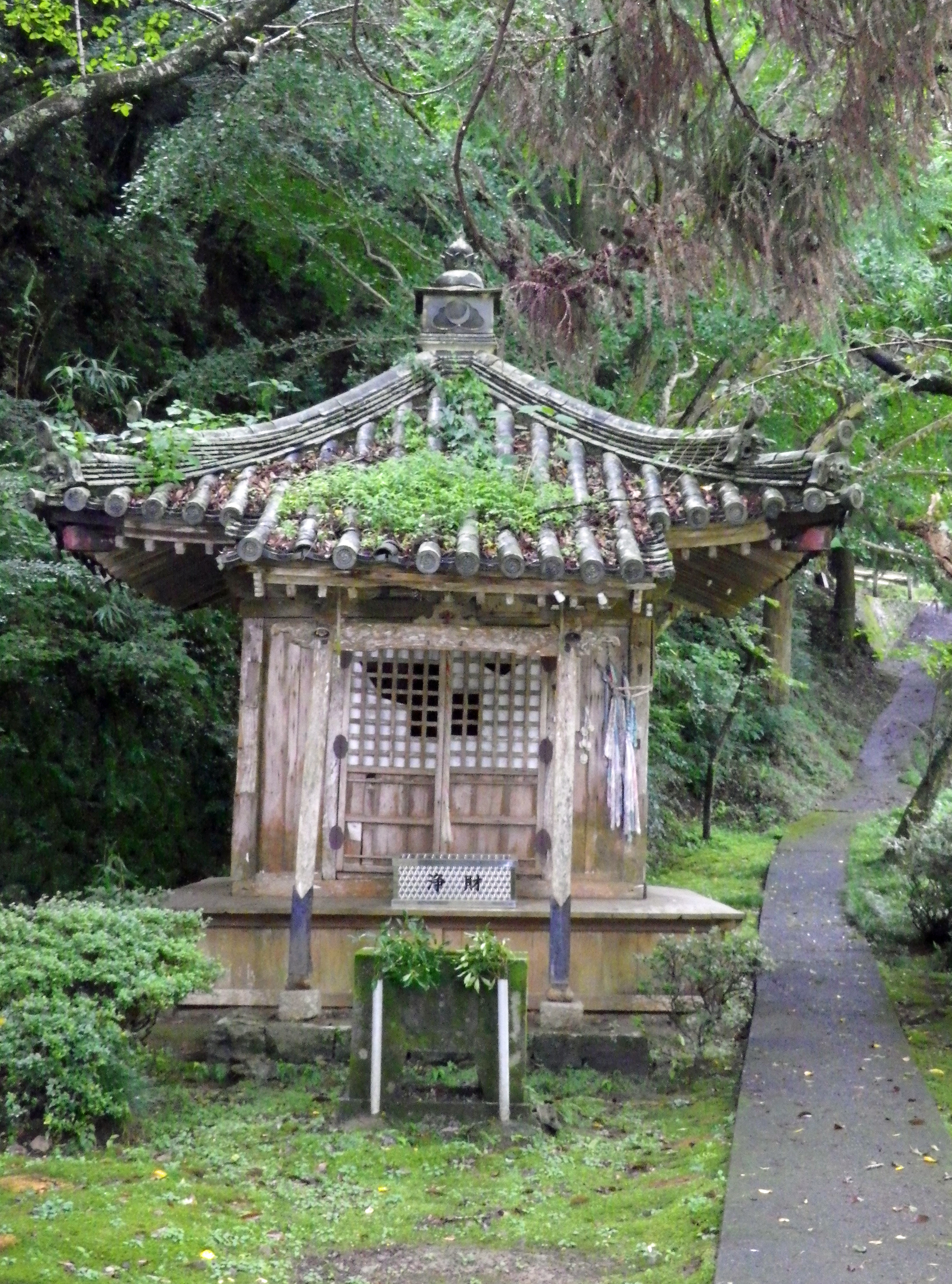 Tsukiyo Omizuan temple